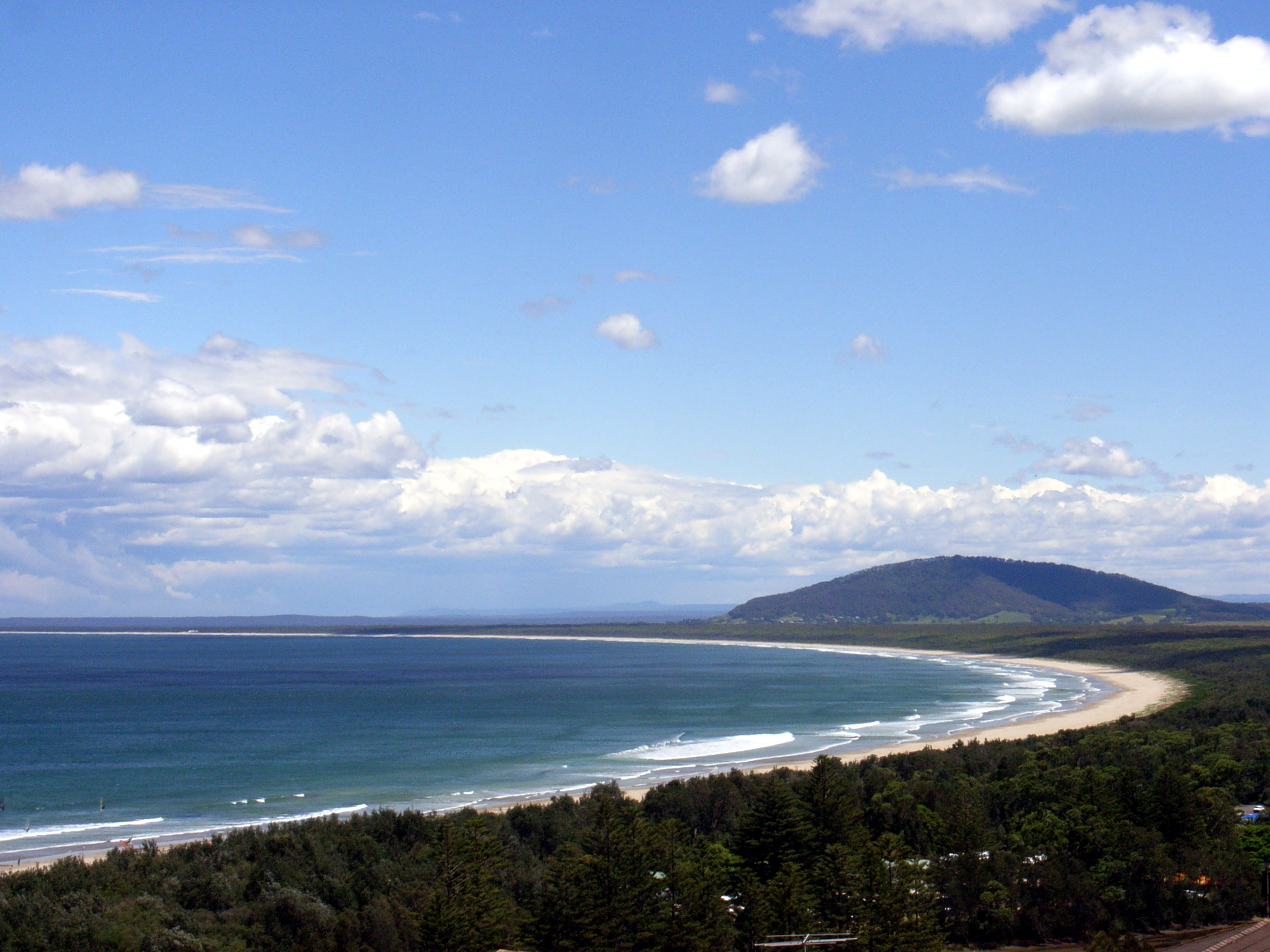 Seven Mile Beach and Mt Coolangatta; looking south from Geroa NSW Australia